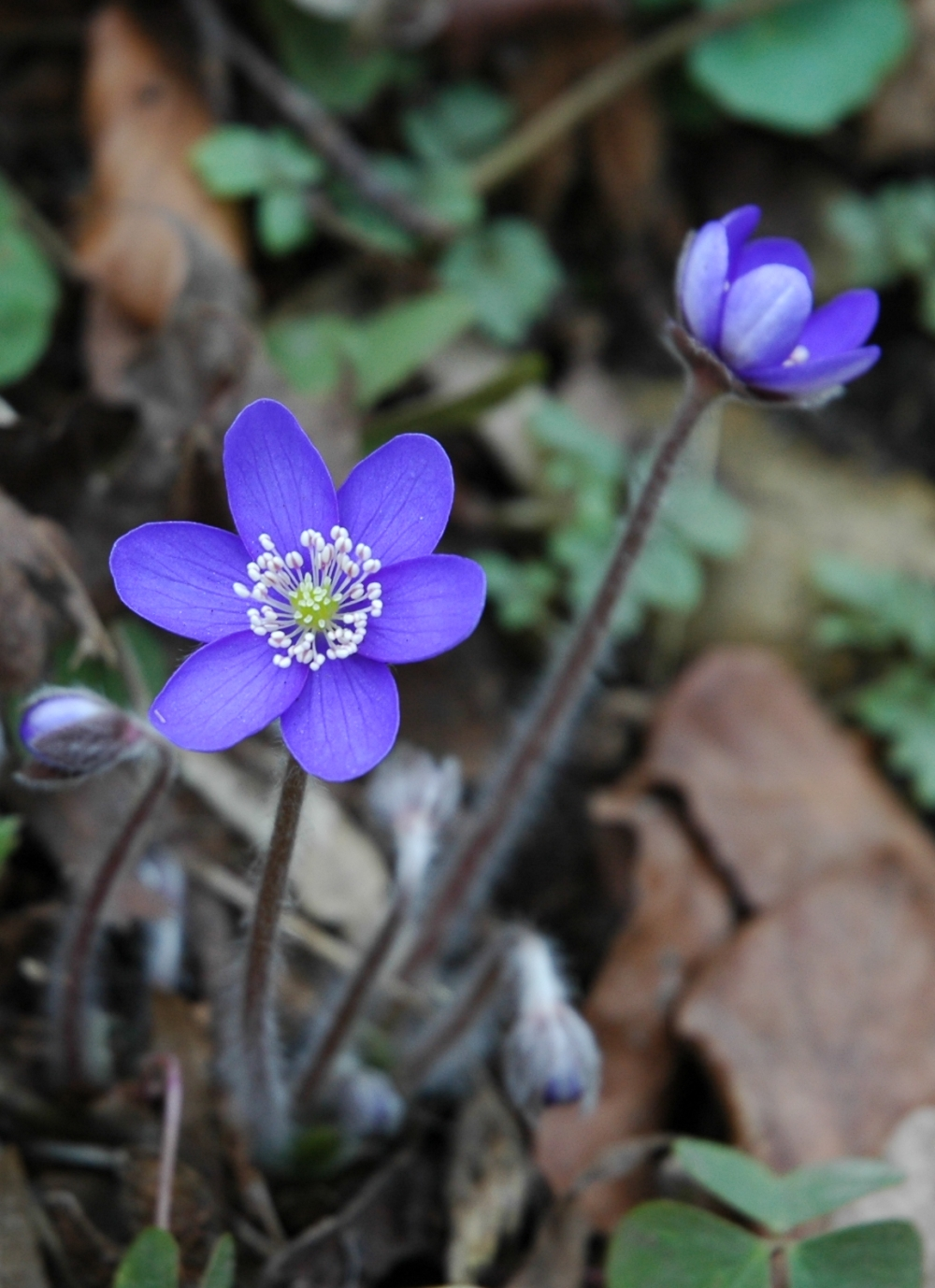 Hepatica nobilis Picture taken by Bernd Reuschenberg